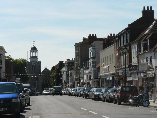 Lymington: High Street (top end) and church tower The parish church of St. Thomas can be seen at the top of the High Street.